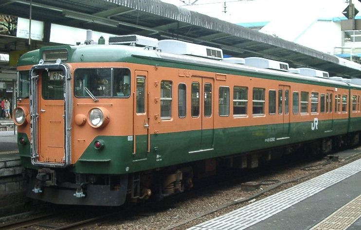 Type kuha 111.3 in the train set series 113, Hiroshima, Japan.